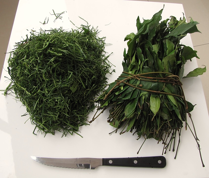 A bundle of fresh Mfumbwa - leaves of the forest vine Gnetum africanum as sold in central Africa markets. Because the leaves are a bit tough, they are chopped first. The chopping is somewhat unique - very fine and usually done by the vendor at the market for the customer. Traditionally cooked in a peanut butter sauce. Mfumbwa is a Kongo dialect name. The recipe name can vary between local languages in the central Africa Congo region where the vine Gentem africanum can be harvested.